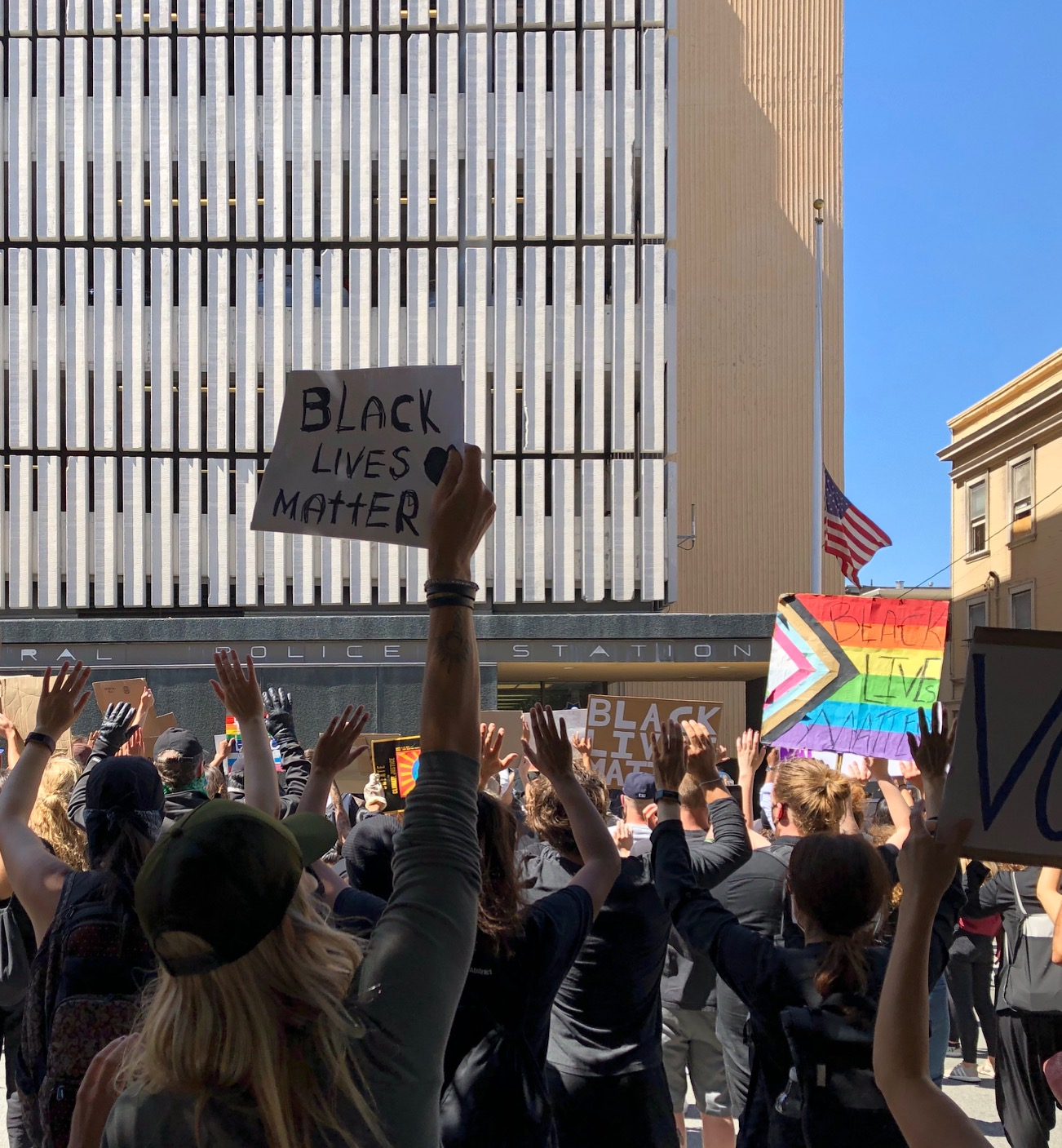 Protest against policy brutality in front of the North Beach police station in San Francisco, June 7, 2020